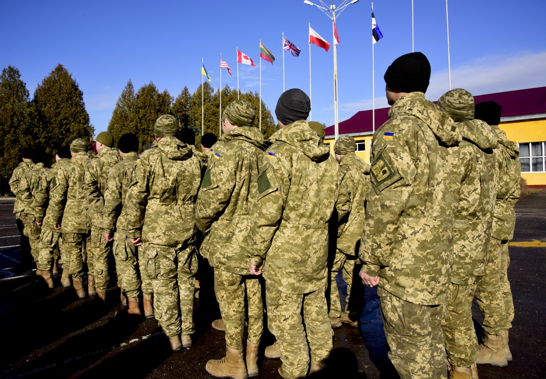 Five hundred Ukrainian soldiers with the 1st Battalion, 24th Mechanized Brigade, successfully completed the first rotation of Fearless Guardian II, Feb. 12, 2016, at the International Peacekeeping and Security Center near Yavoriv, Ukraine, after nine weeks of training. (Photo Credit: Photo by Sarah Tate, JMTC Public Affairs).